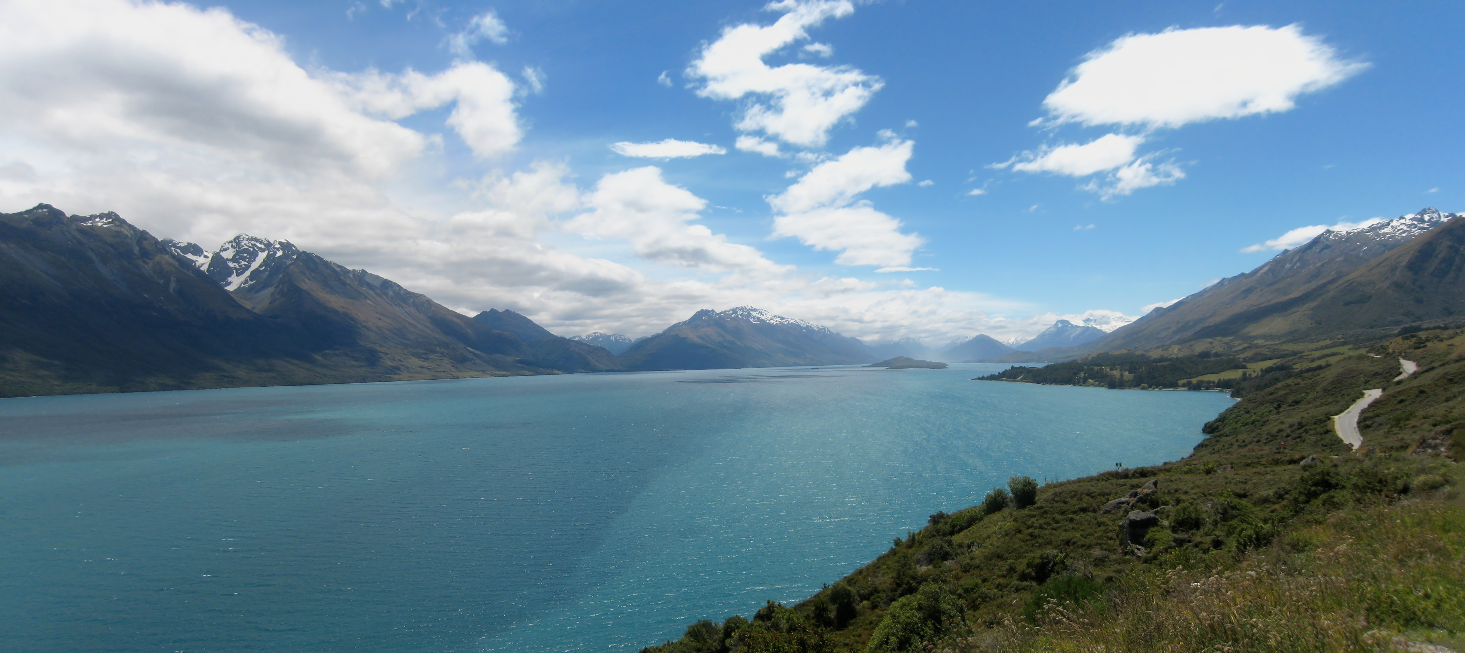 Northwest end of Lake Wakatipu.